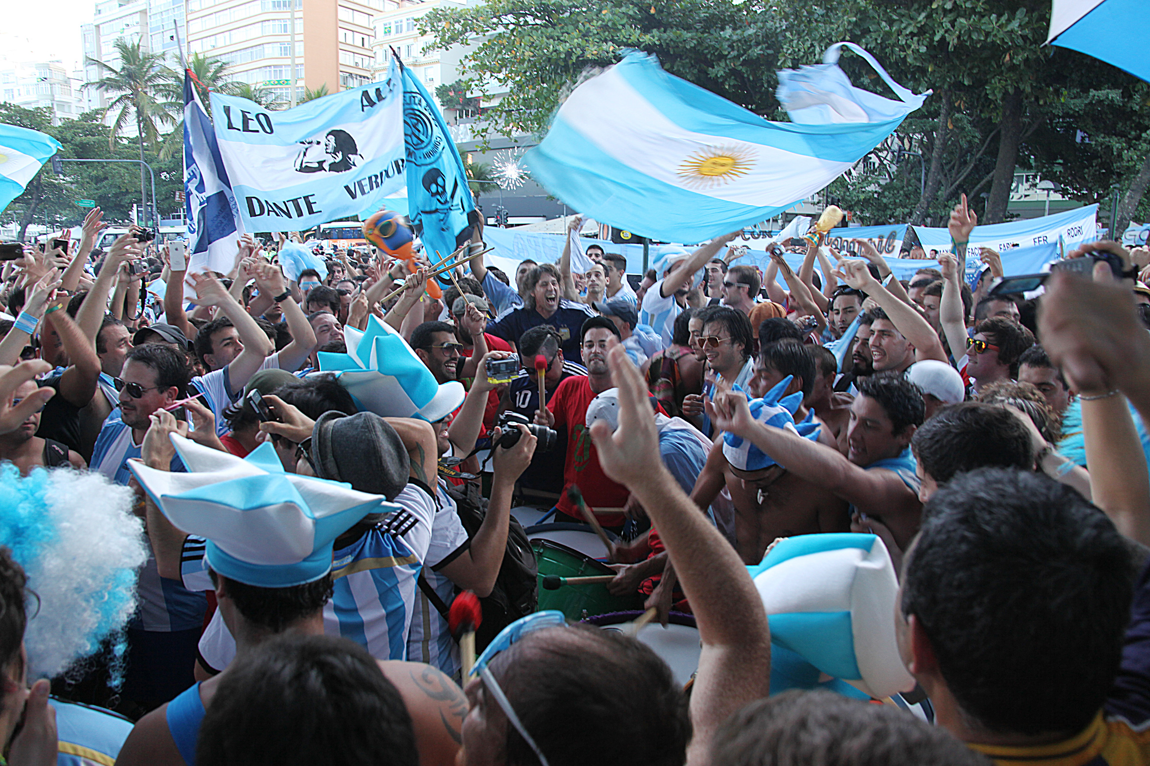 Argentinian fans in Rio de Janeiro